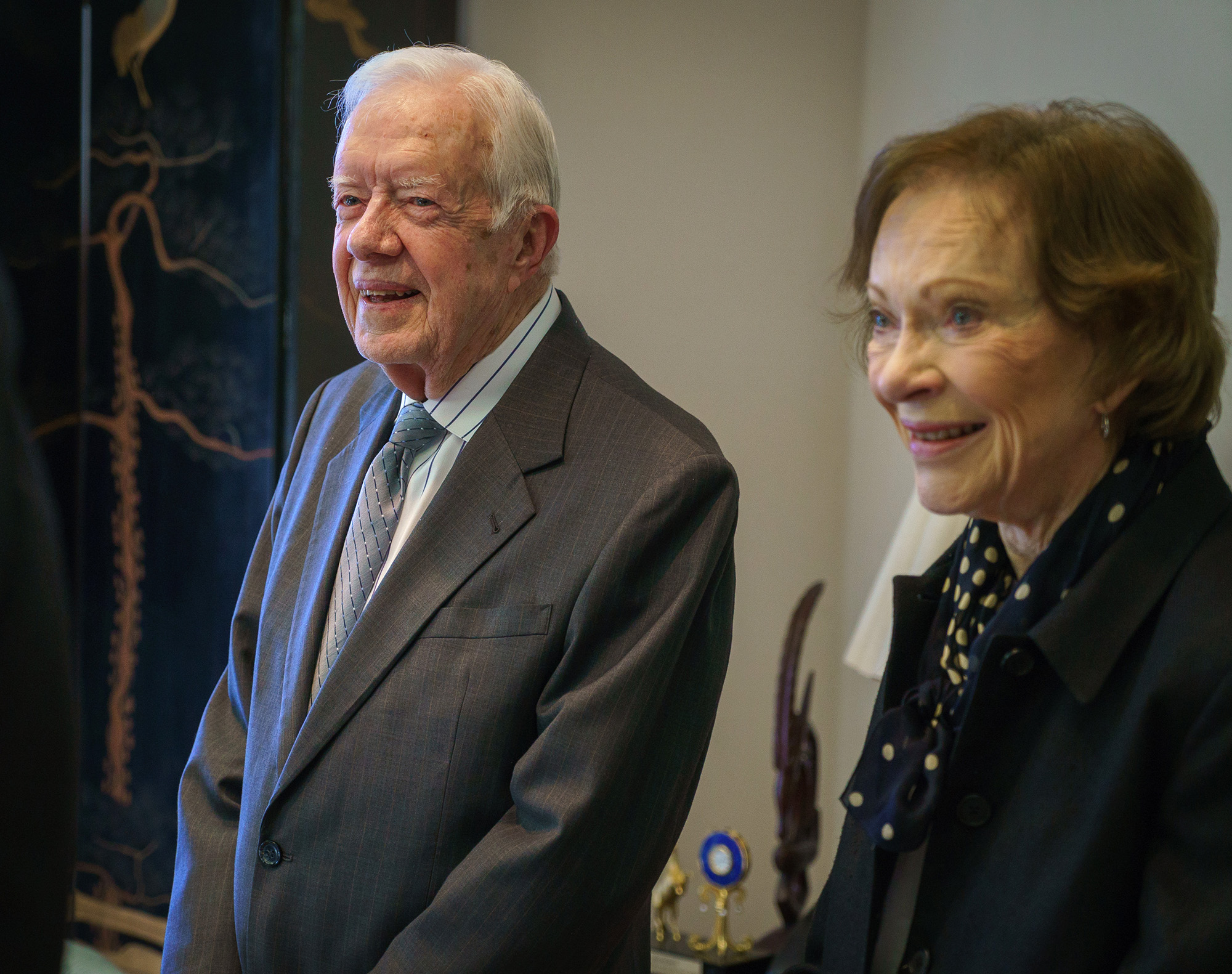 (L-R) President Jimmy Carter and former First Lady Rosalynn Carter at The Carter Center in Atlanta, GA.